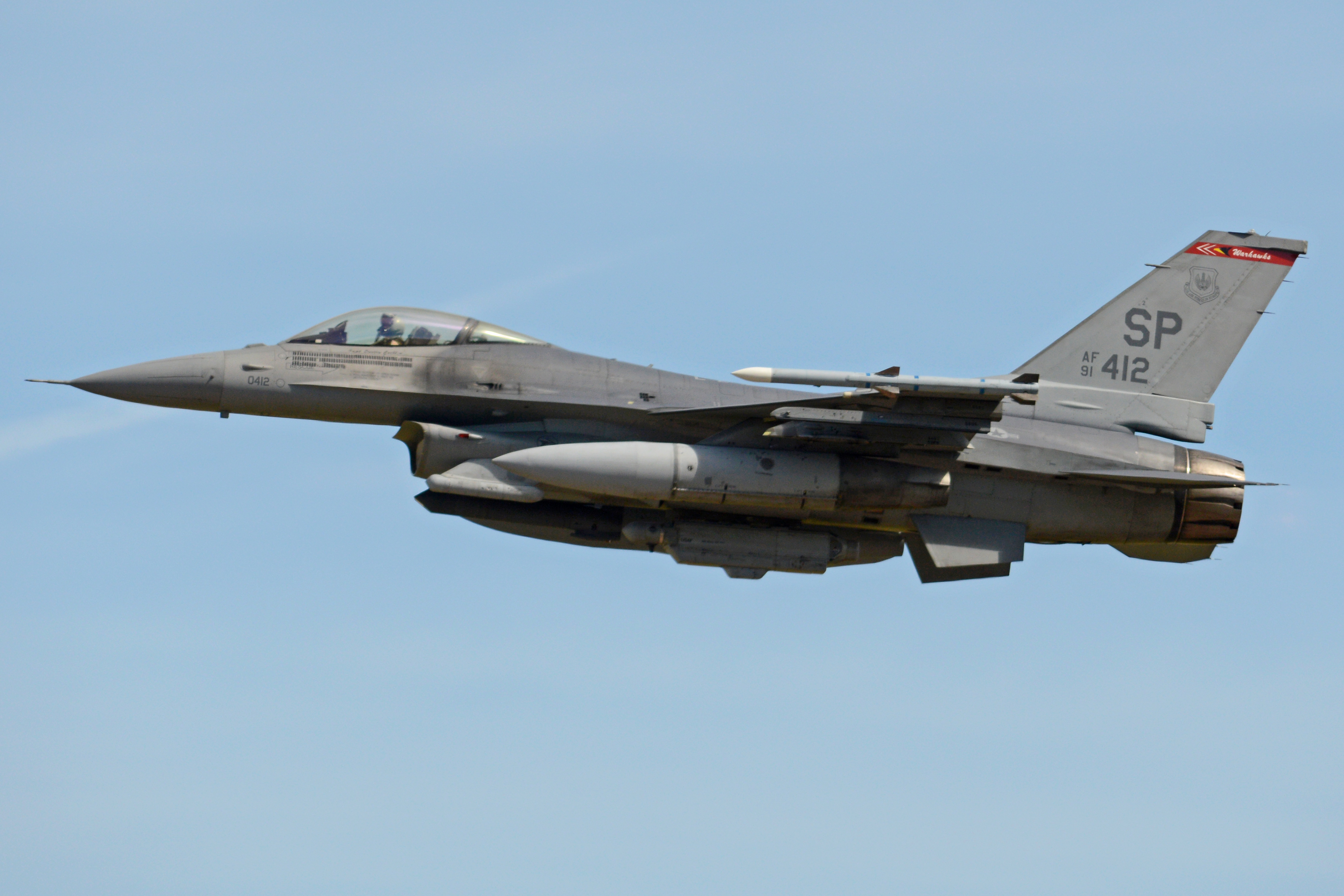 c/n CC-110. Full US military serial 91-0412. Operated by the 480th Fighter Sqn, part of the 52nd Fighter Wing, United States Air Force, based at Spangdahlem Air Base in Germany. Seen departing after taking part in the 2017 Royal International Air Tattoo. RAF Fairford, Gloucestershire, UK. 17th July 2017